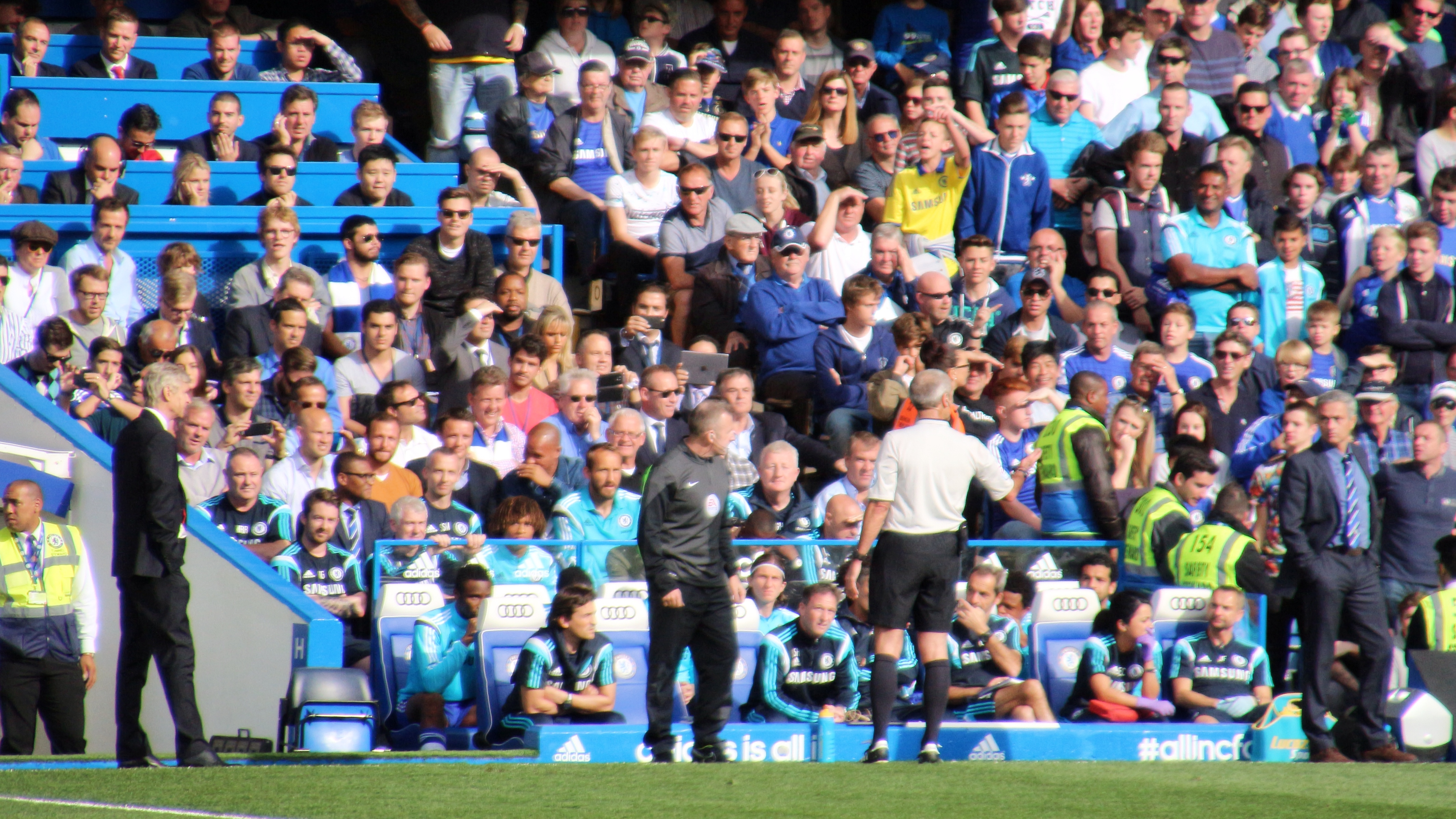 Premier League match between Chelsea and Arsenal at Stamford Bridge on 5 October 2014.